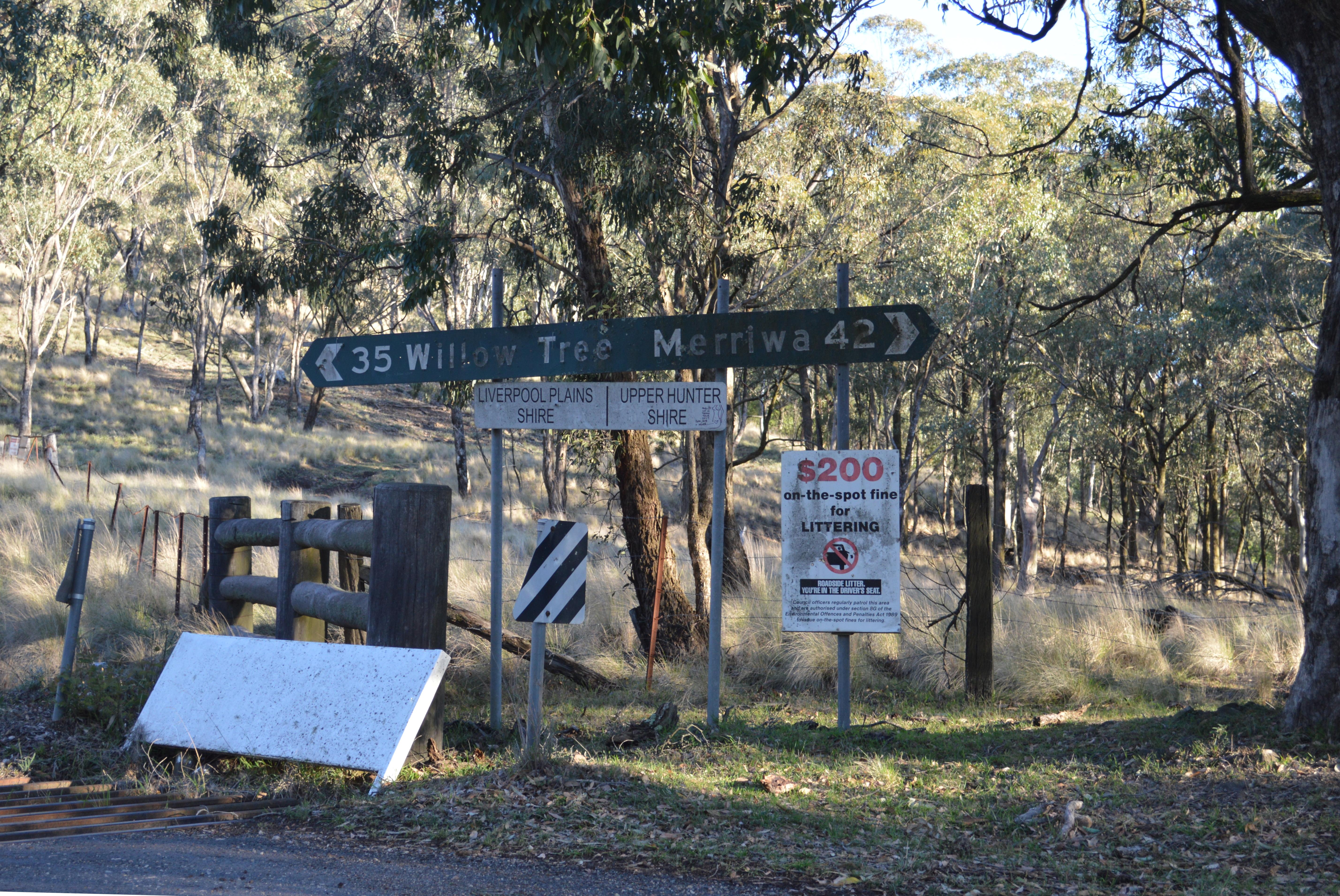 Liverpool Plains Shire/Upper Hunter Shire municipal border sign at Little Jacks Creek, New South Wales